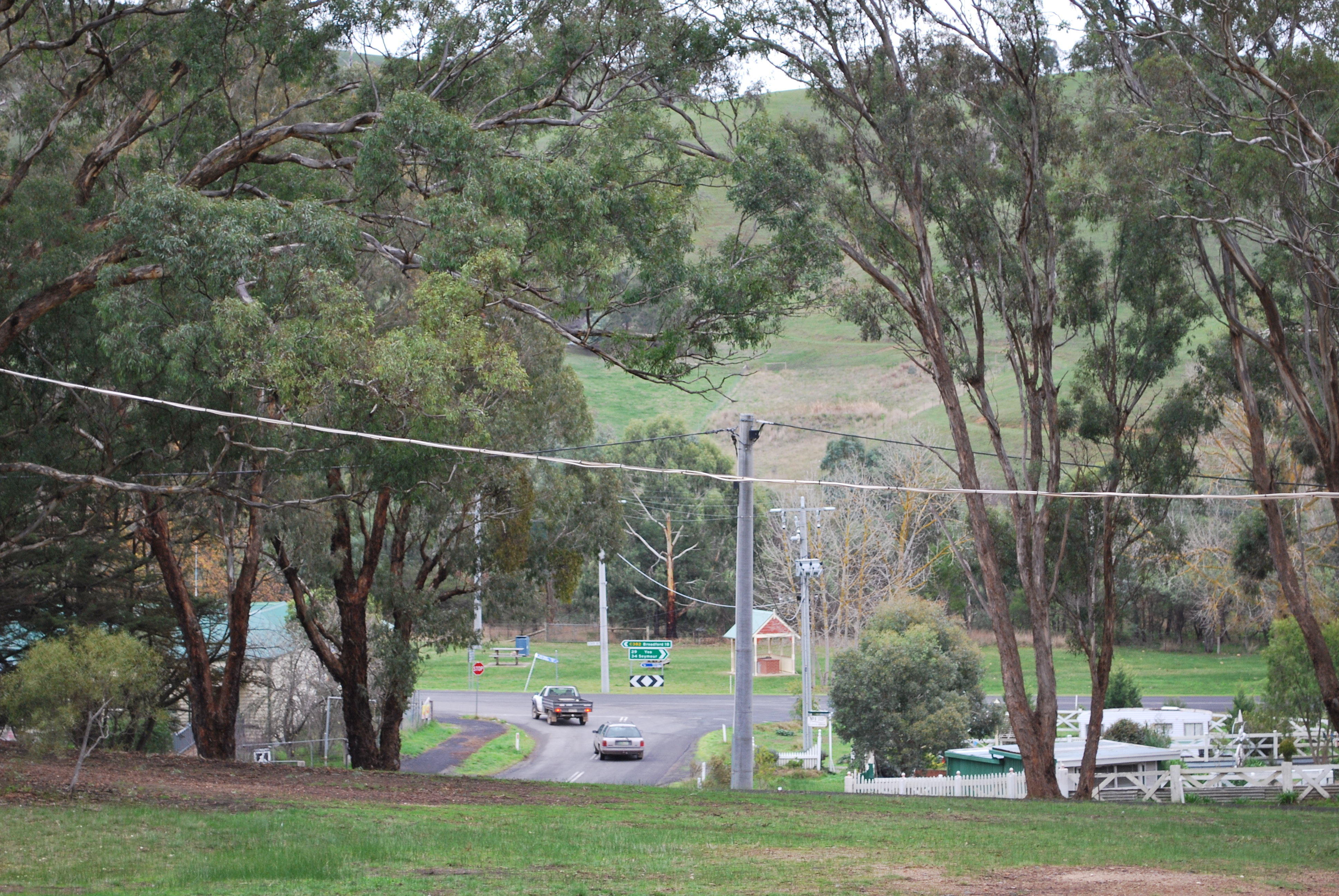 The intersection of the Broadford-Yea road and the Flowerdale road at Strath Creek, Victoria